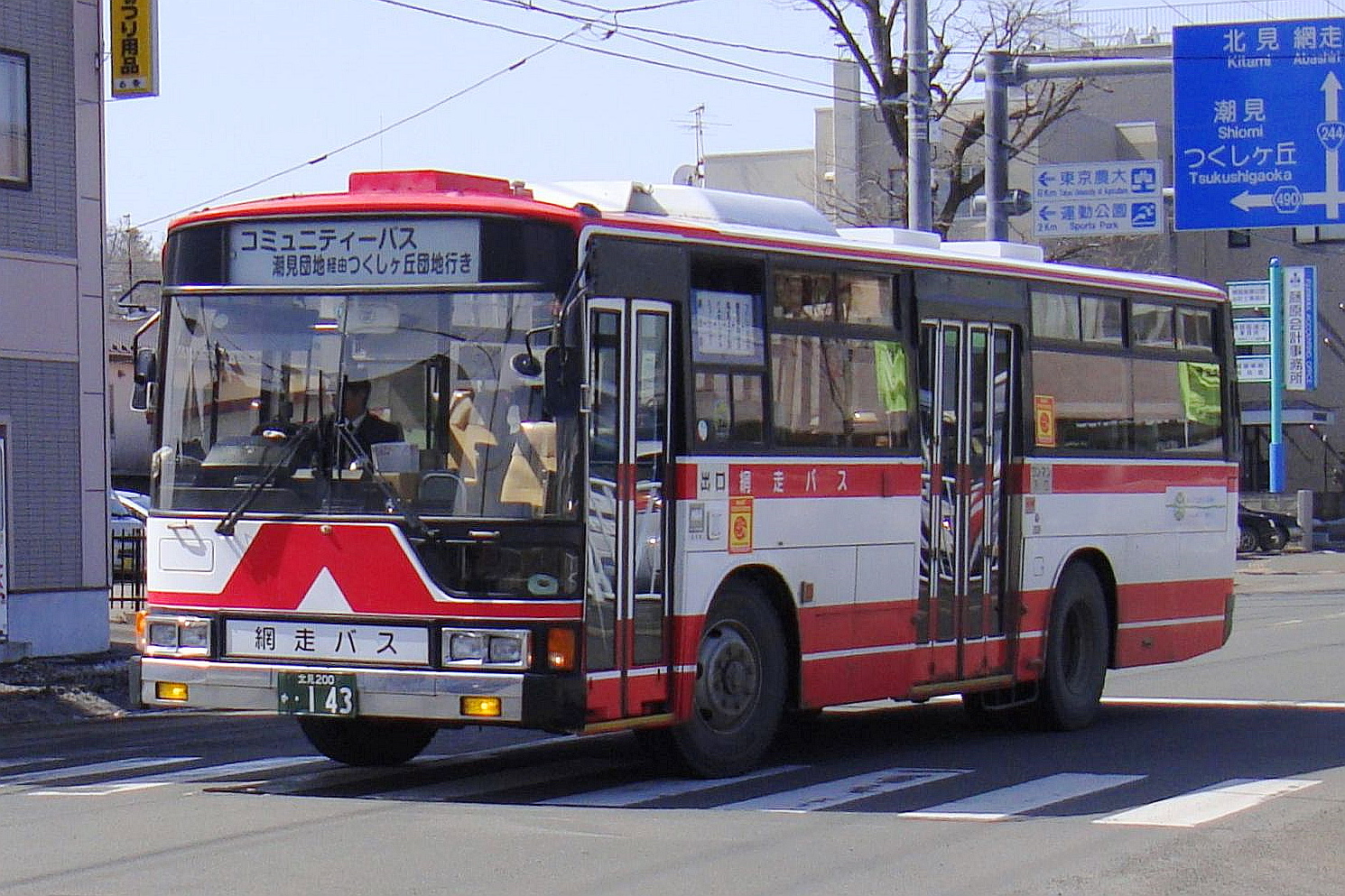 Abashiri city line